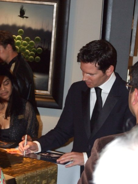 The artist Tim Cantor at his October 09, 2009 show in San Diego.